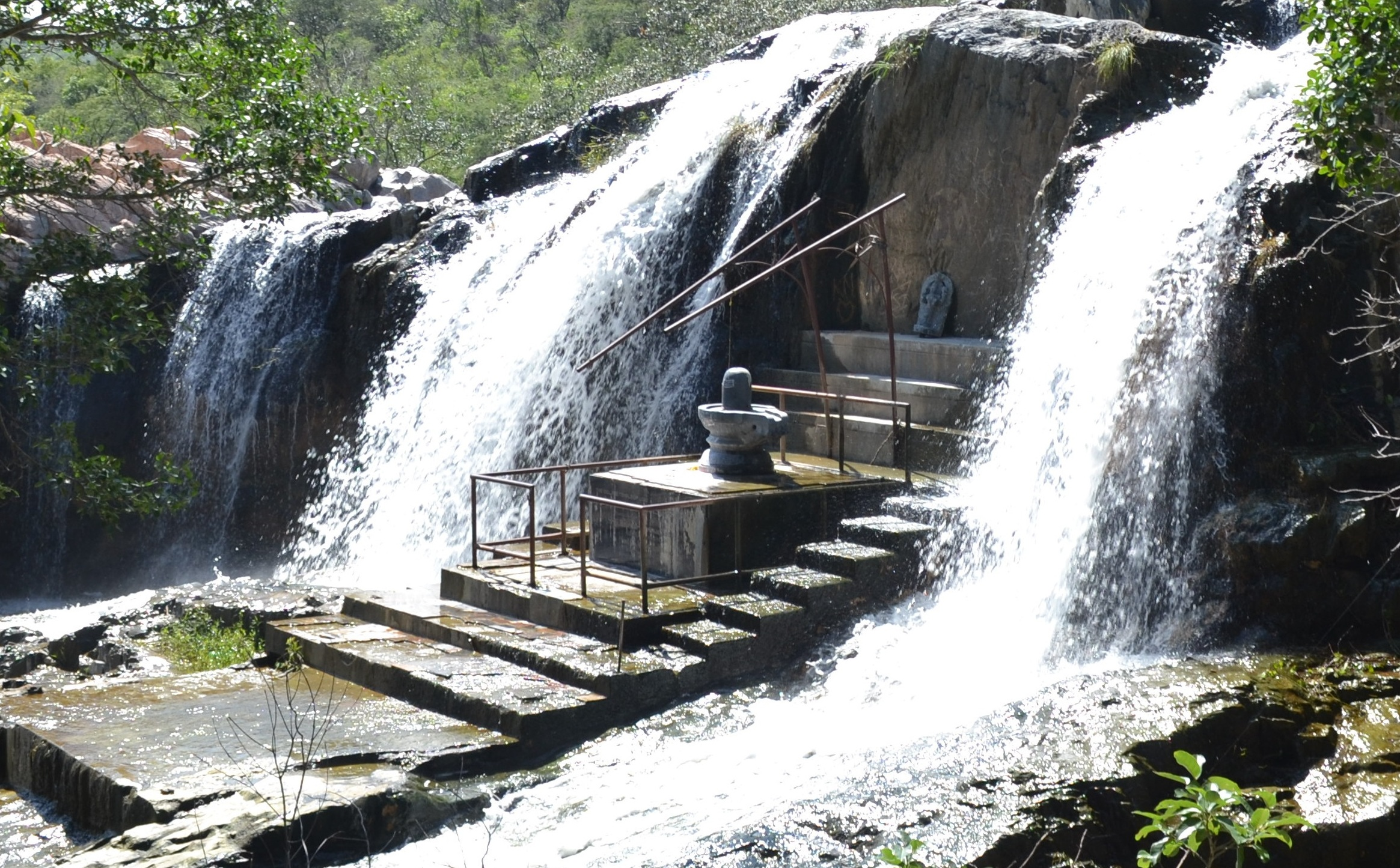 waterfalls located on the Palamaner- Kuppam highway